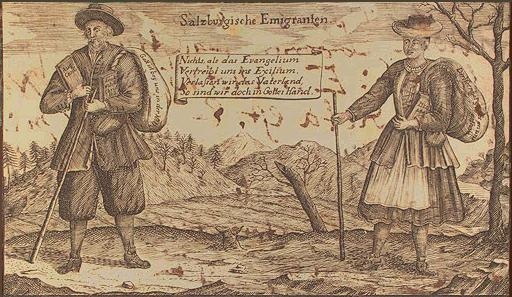 The exiled protestants from Salzburg, text saying "Nothing but the gospel evicted us into exile, nevertheless we are leaving the fatherland, we are still in God's hand".